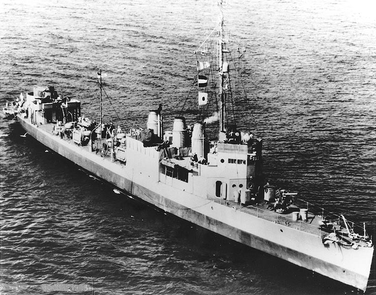 The U.S. Navy miscellaneous auxiliary USS Boggs (AG-19) in June 1945. She served as a target towing vessel.